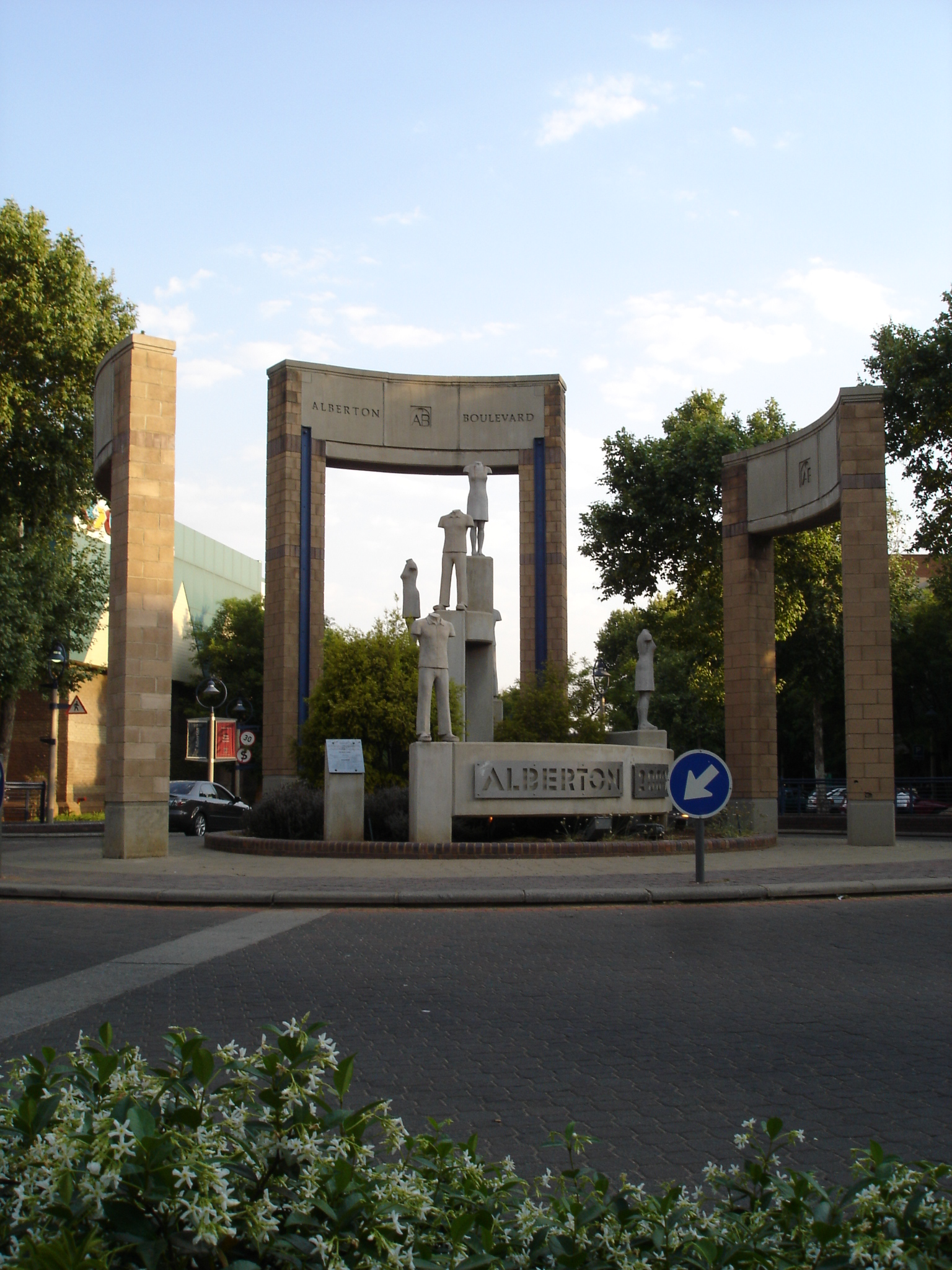 Alberton Boulevard Entrance in Alberton, Gauteng, South Africa